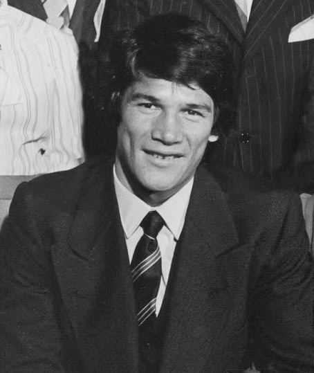 Argentine boxer and world champion Carlos Monzón, posing with the cast of movie La Mary.